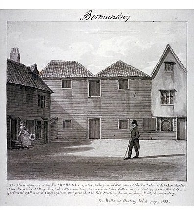 Bermondsey, London, the old meeting-house associated with William Whitaker (1629–1672).